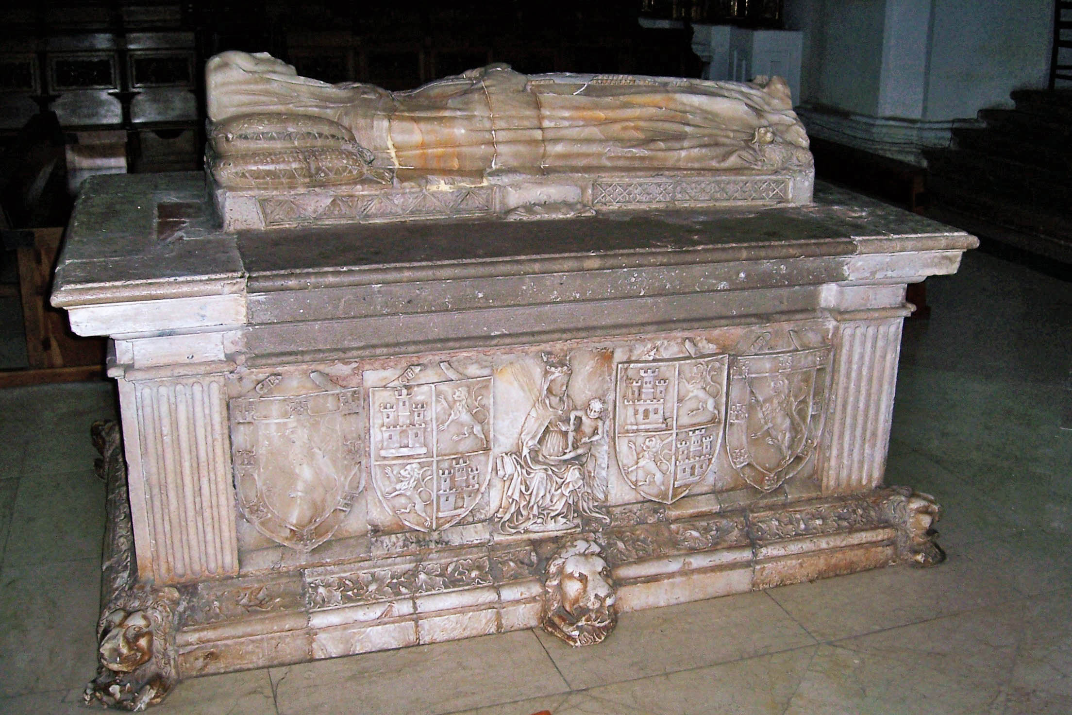 Tomb of the Queen María de Molina in the church of the convent of Las Huelgas Reales of Valladolid, Spain.